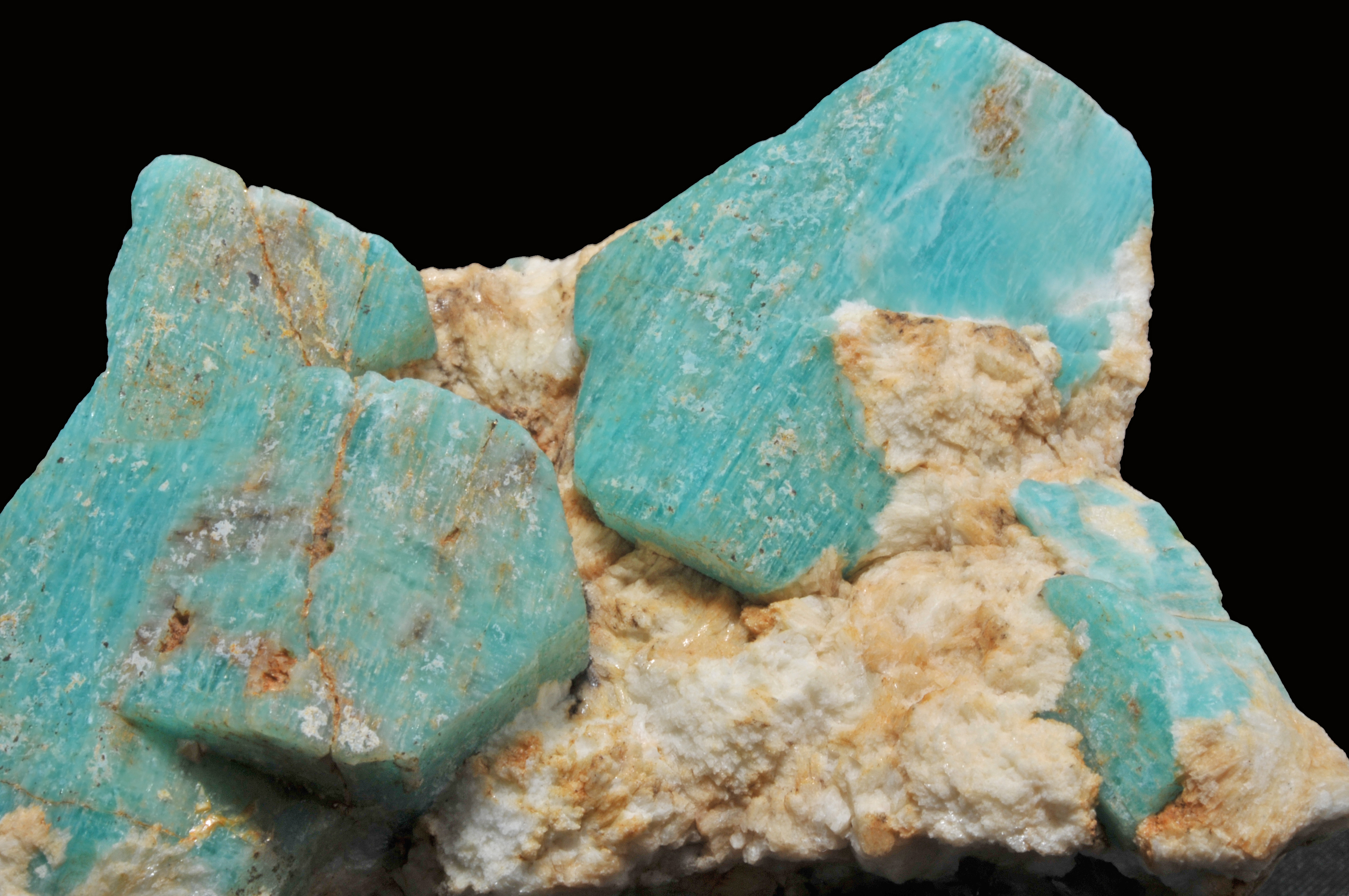 crystals of feldspar var. amazonite, crystals of feldspar var. orthoclase : Konso, Sidamo-Borana Province, Ethiopia